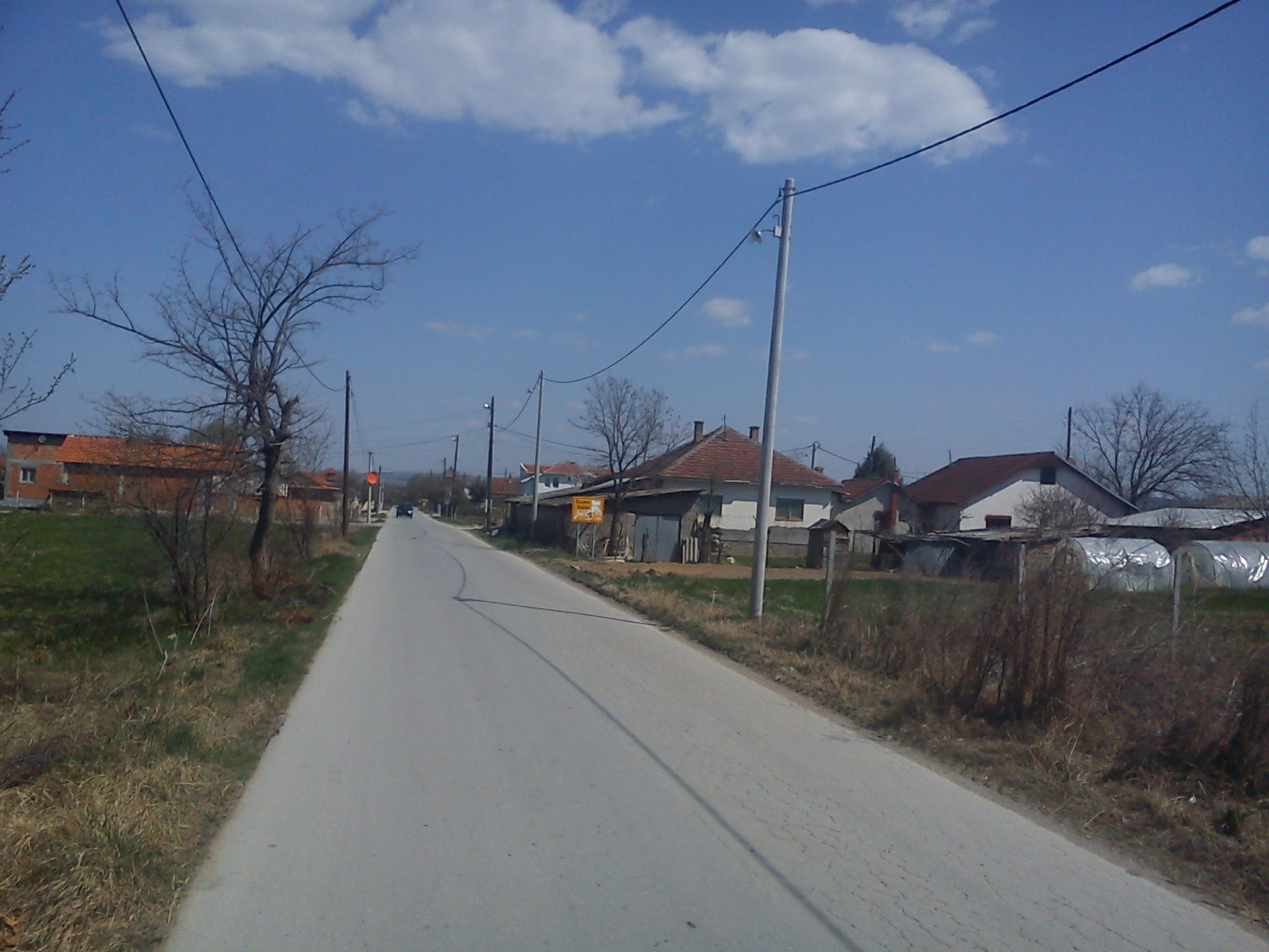 village of Kadino, Macedonia